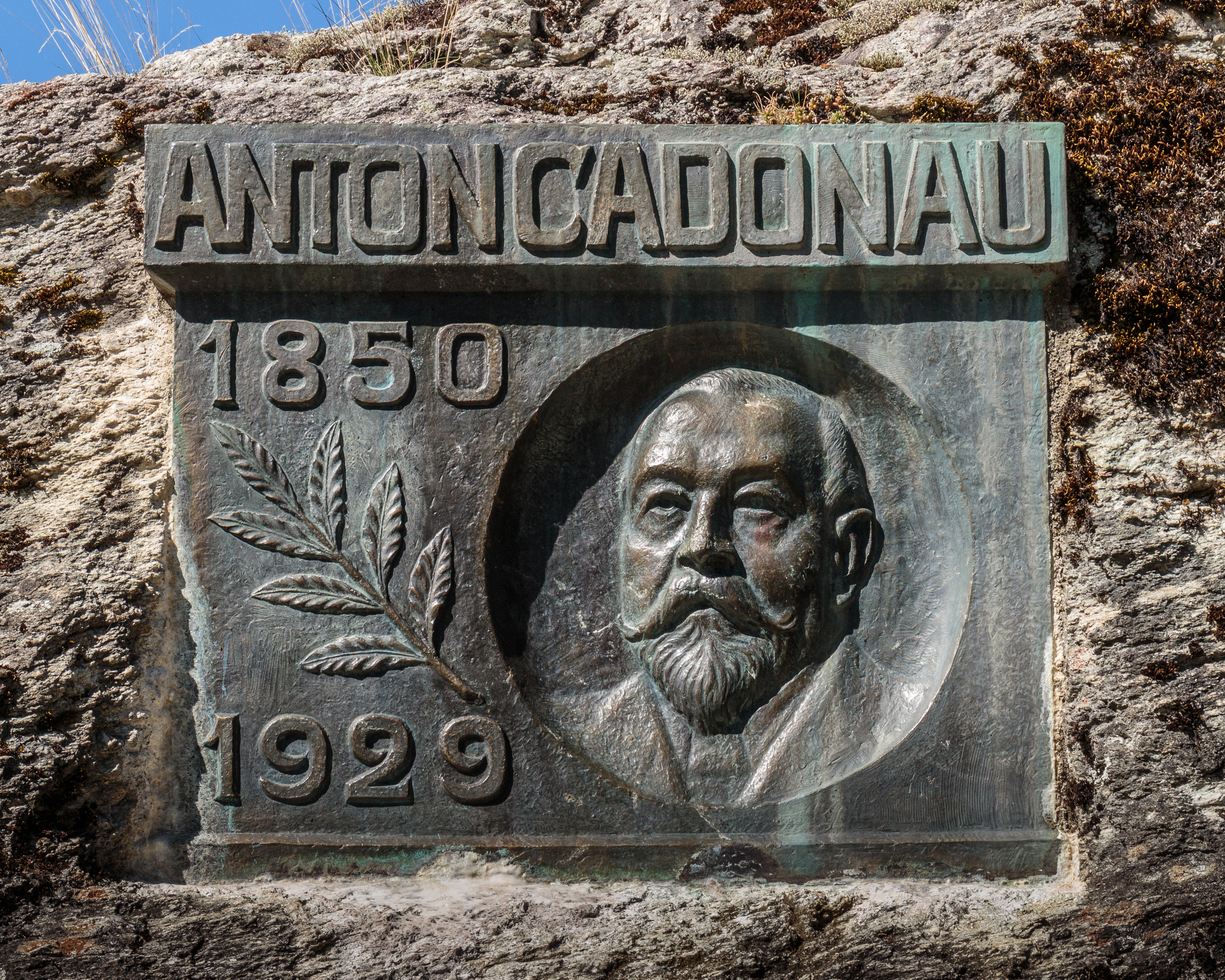 Waltensburg/Vuorz. Switzerland. Ruïne Casti Munt Sorn Gieri (Burg Jörgenberg). Memorial stone of the Swiss merchant Anton Cadonau (1850-1929).